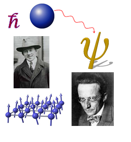 self-made by Voyajer Janeen Hunt with pics from specifically stating Copyright 1997 - 2005: Released as Copyleft / GNU Free Documentation License (FDL)